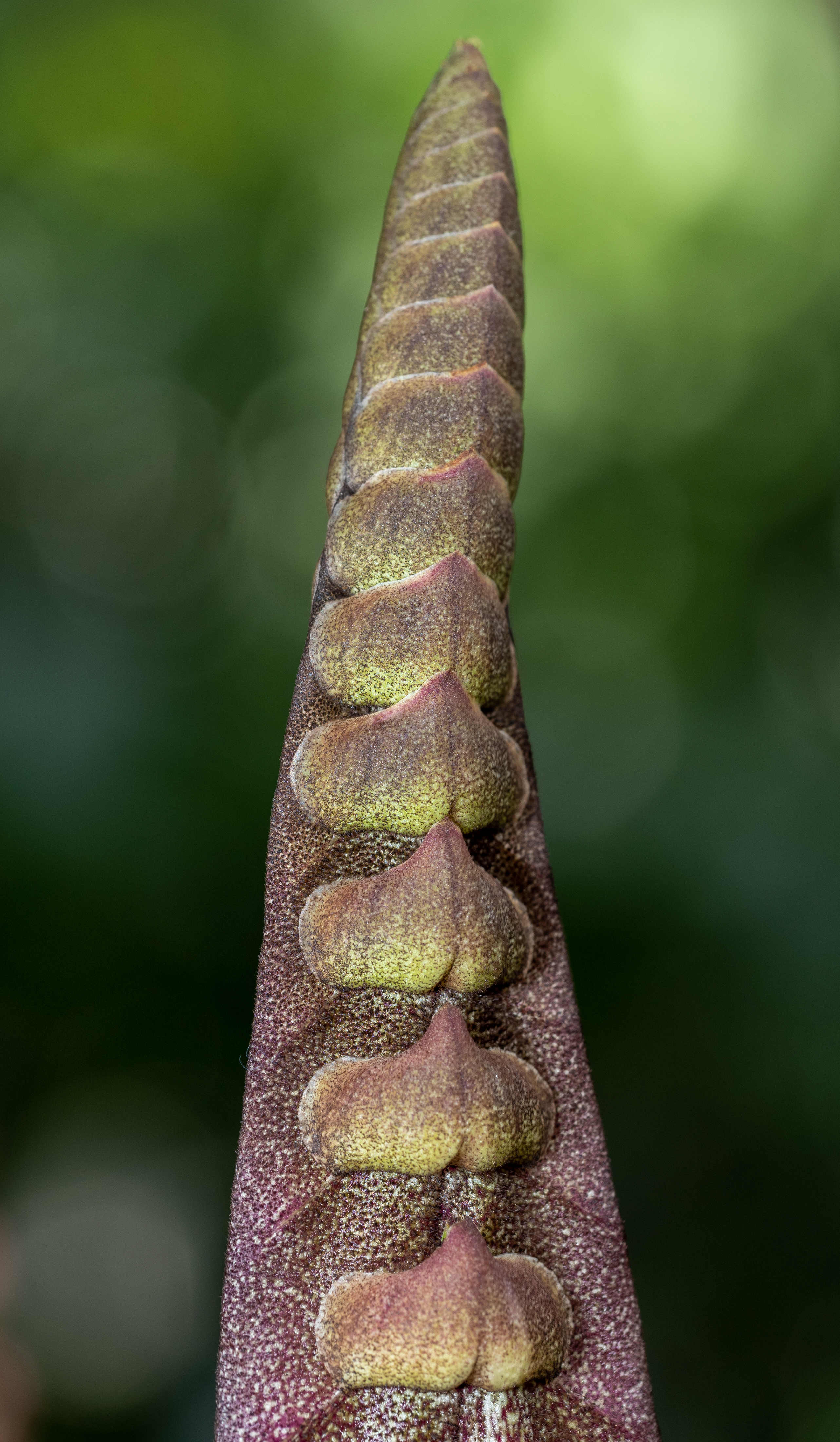 Bulbophyllum purpureorhachis at USBG